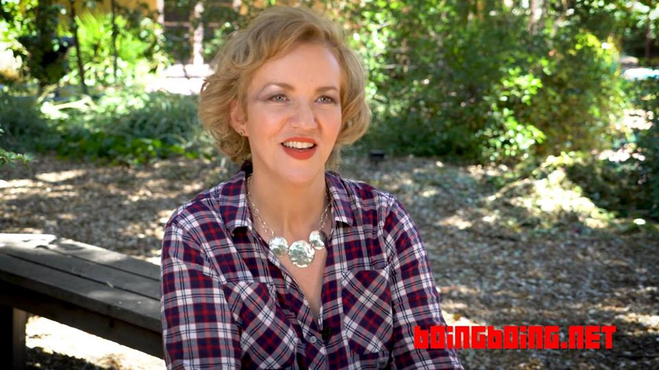 Source